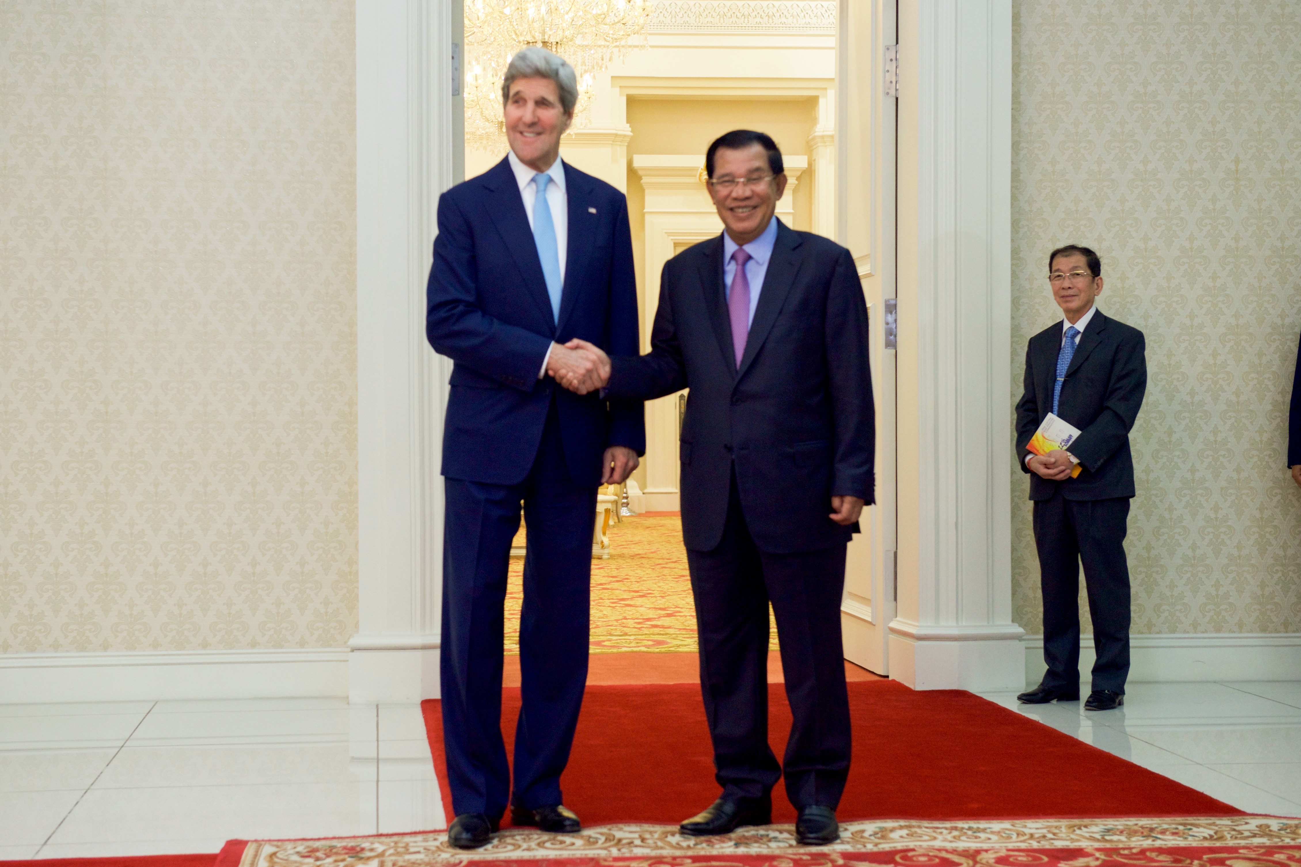 U.S. Secretary of State John Kerry poses for photographers with Cambodian Prime Minister Hun Sen before a bilateral meeting on January 26, 2016, at the Peace Palace in Phnom Penh, Cambodia.